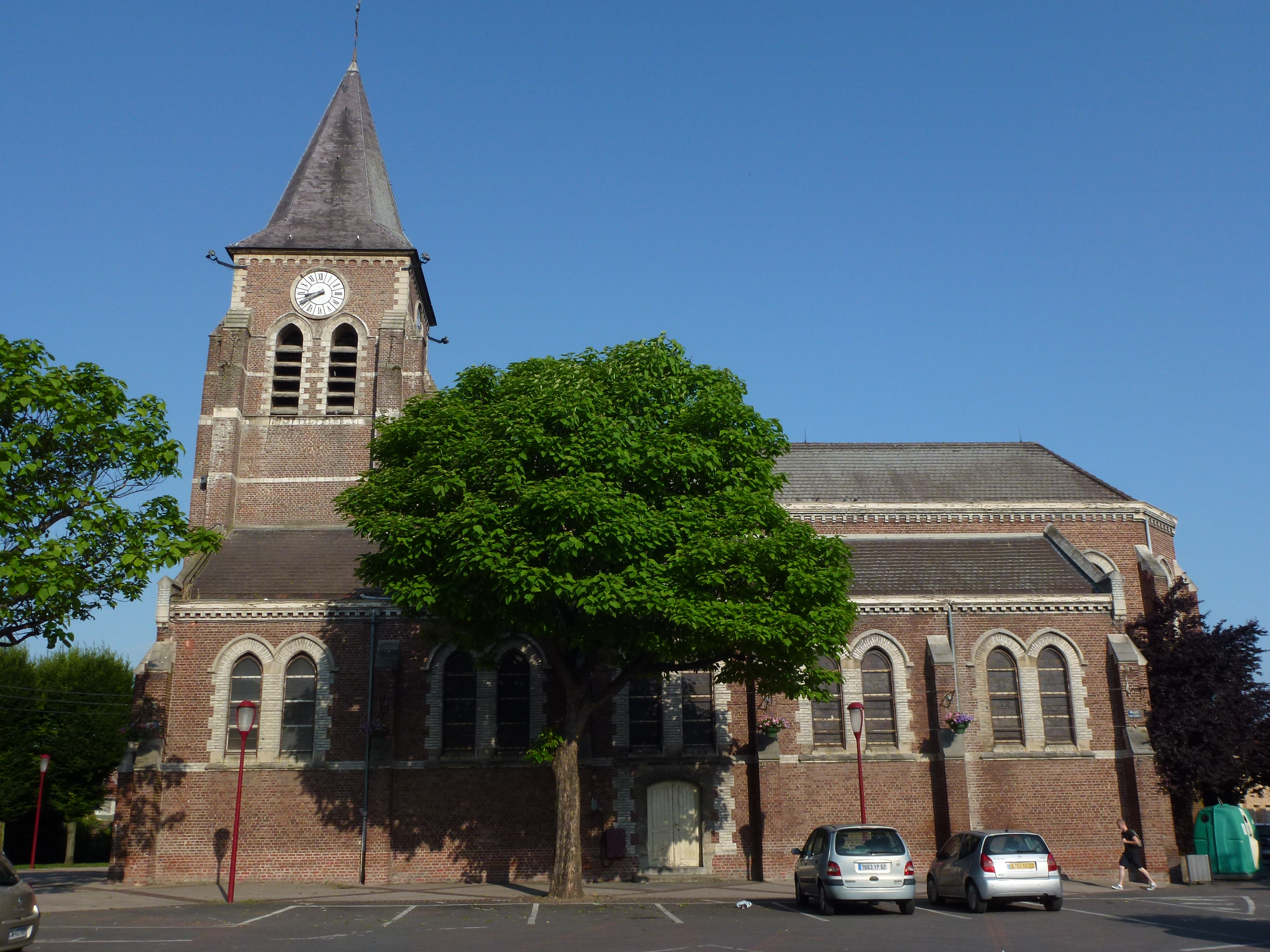 Dourges (Pas-de-Calais, Fr) église